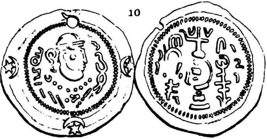 Coin of Guaram I of Iberia, c. 590